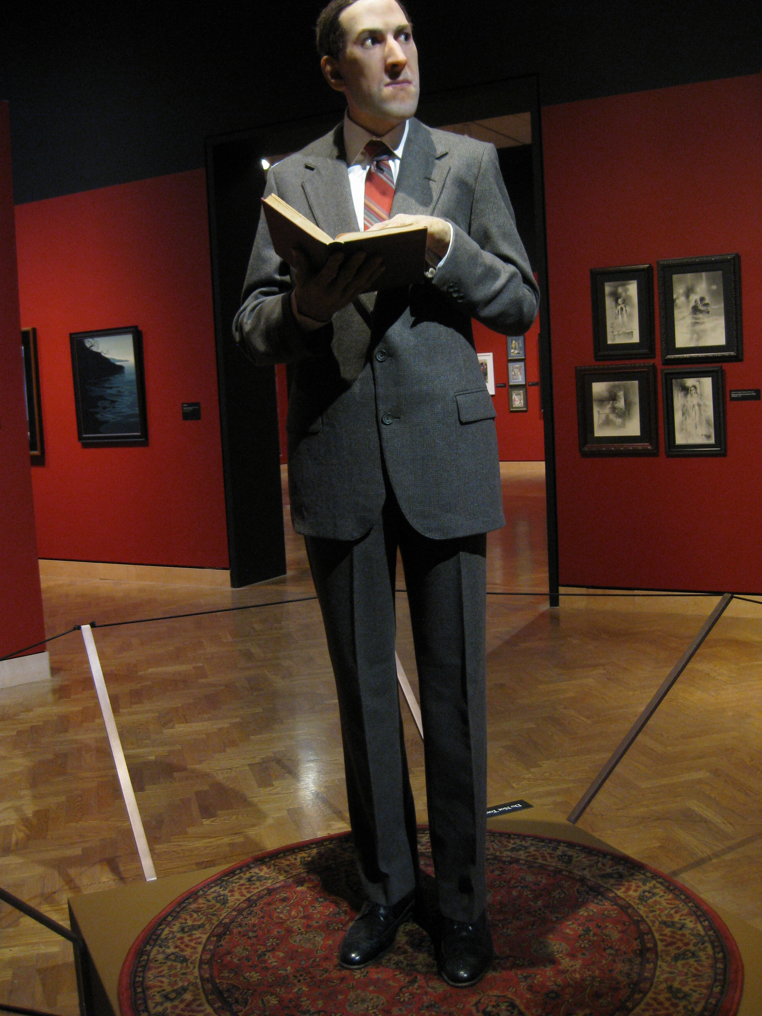 From the "Guillermo Del Toro" exhibit at the MIA, April 28, 2017.